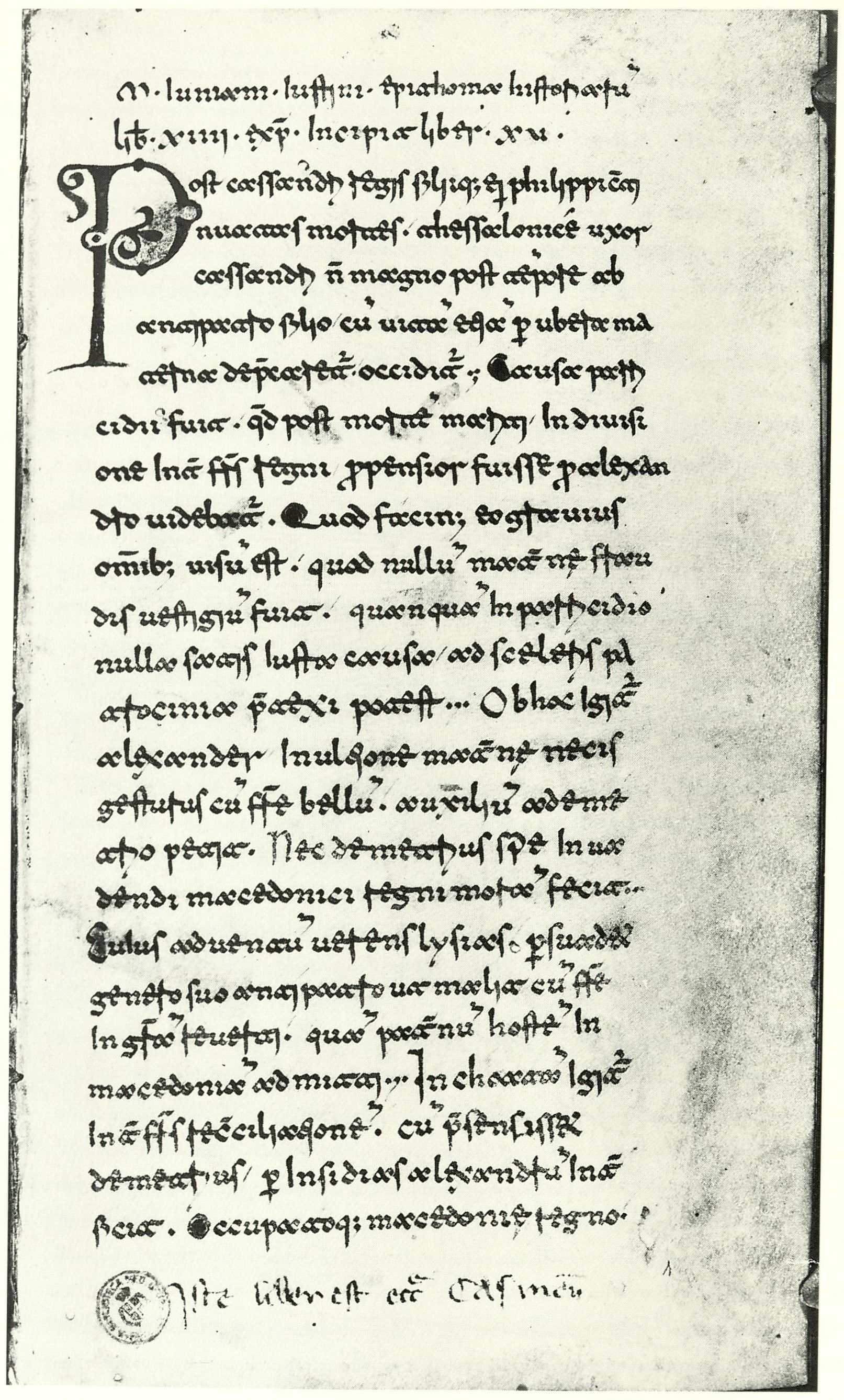 A page of the „Epitoma historiarum Philippicarum“ in the manuscript Florence, Biblioteca Medicea Laurenziana, Plut. 66.21, fol. 1r.